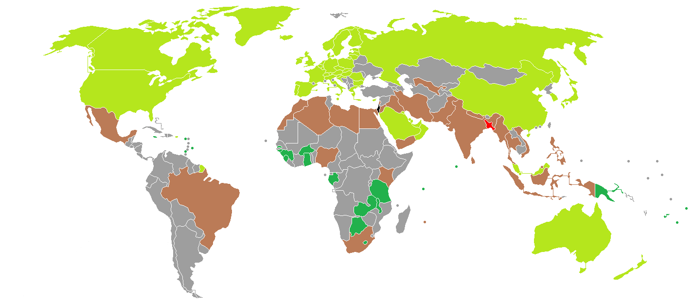 Visa policy of Bangladesh